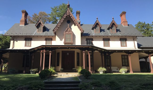 The Grange